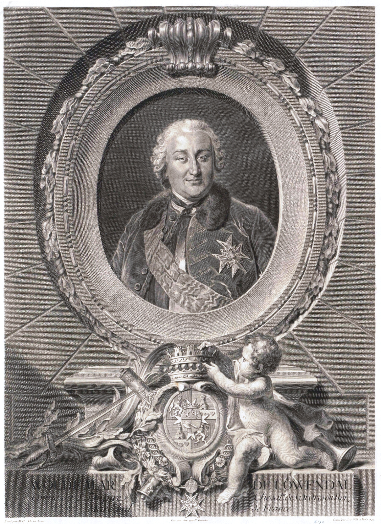 Portrait of Ulrich Woldemar, count of Löwendal, marchal of France